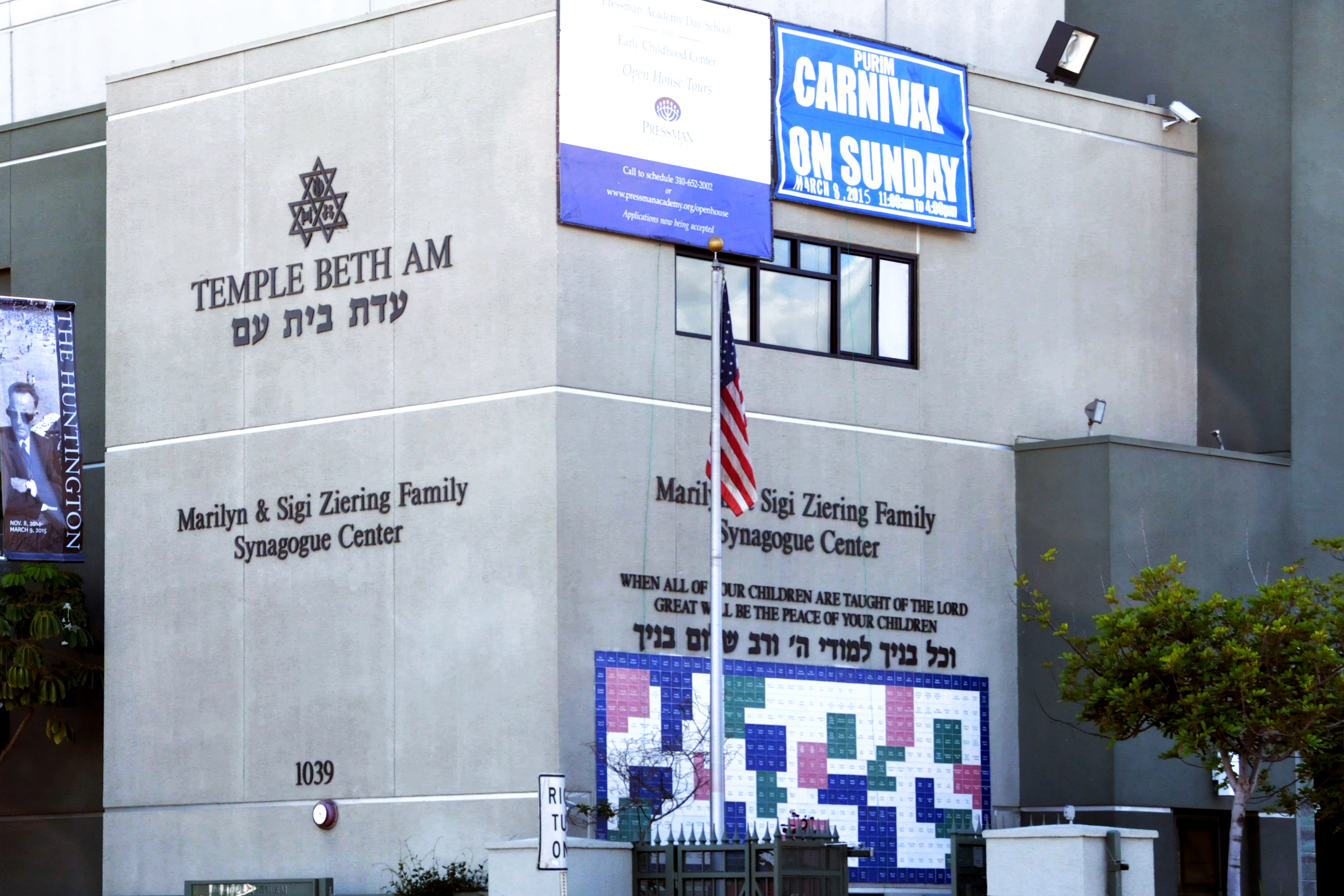 Temple Beth Am in Los Angeles, California, March 2015 - photo by Glenn Francis of